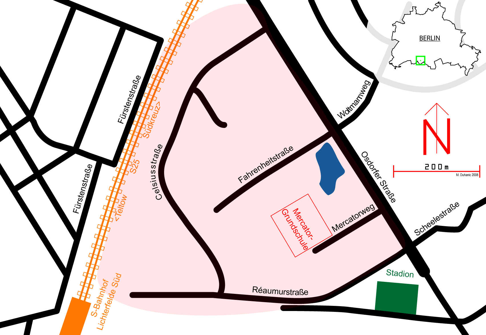 Map of the "Thermometersiedlung" (Thermometer housing estate) in Berlin-Lichterfelde with its location in Berlin